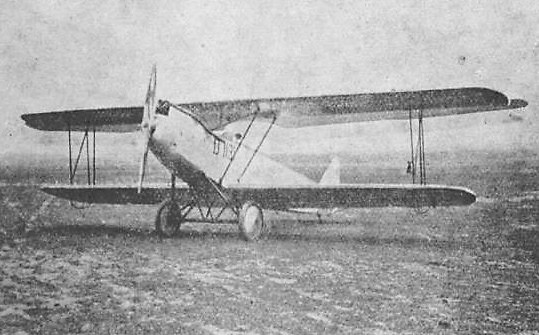 Raab-Katzenstein RK.2b photo from Annuaire de L'Aéronautique 1931